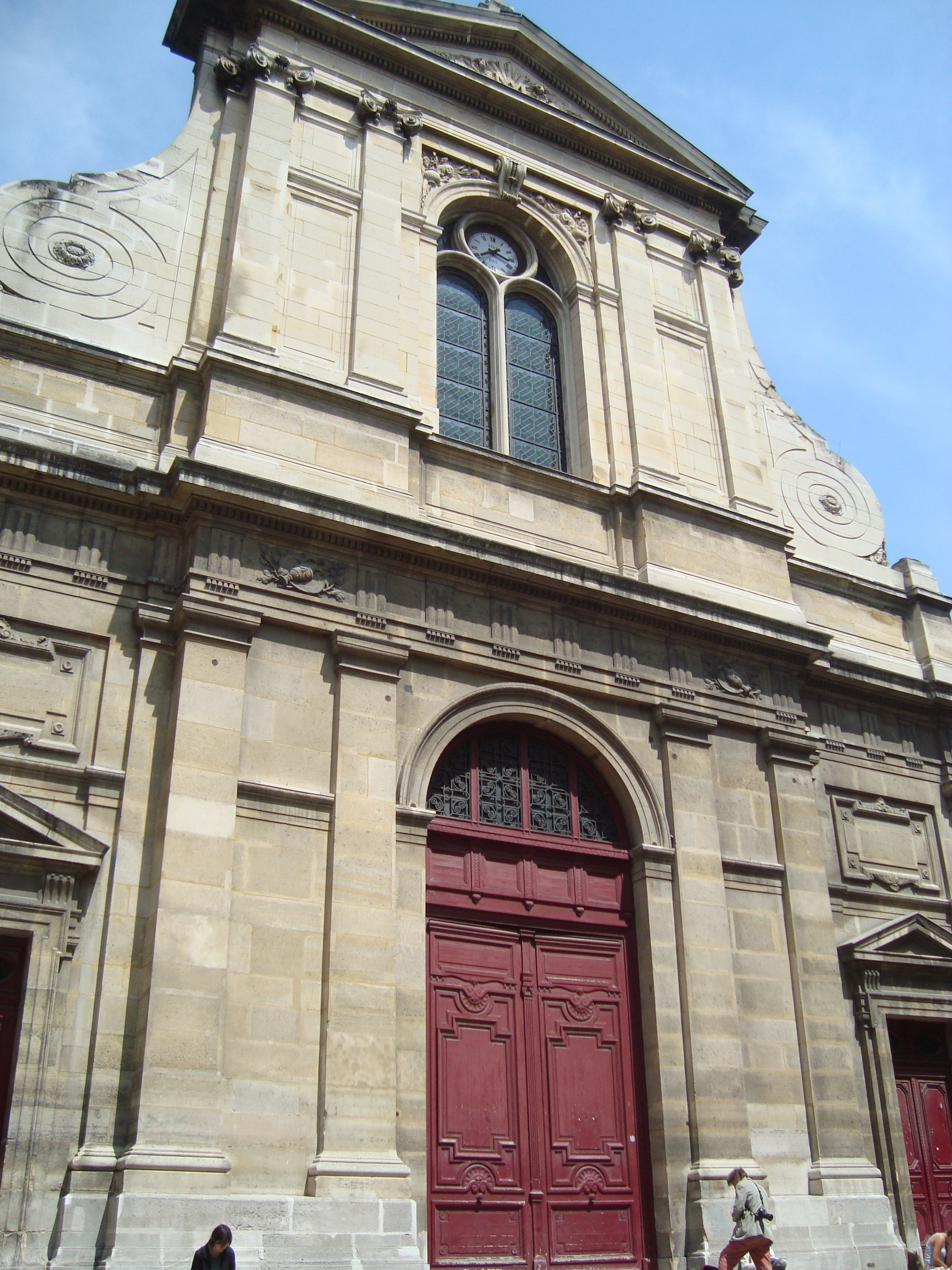 Facade of the church Notre-Dame-des-Blancs-Manteaux, in Paris